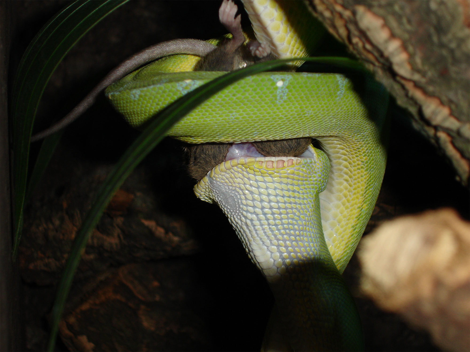 Morelia viridis eating